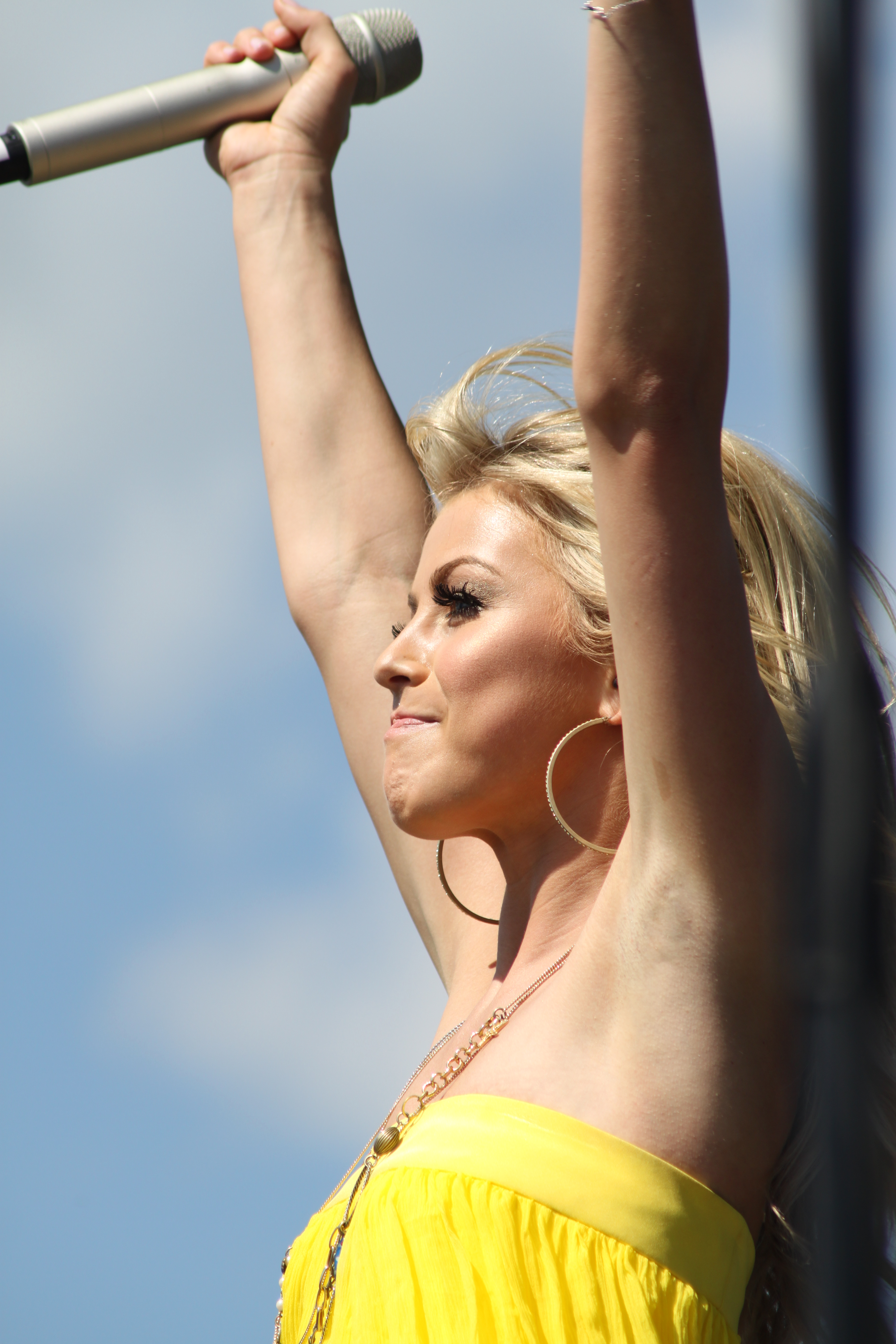 Julianne Hough performing at a 2009 Birthday Bash concert. Photographed with a Canon EOS Rebel T1i.